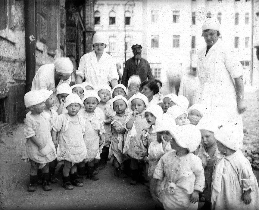 Children of a kindergarten on a walk at Lakhtinskaya Street, Leningrad, Russia, 1930s